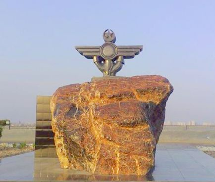 Official logo of the Pakistan Marines